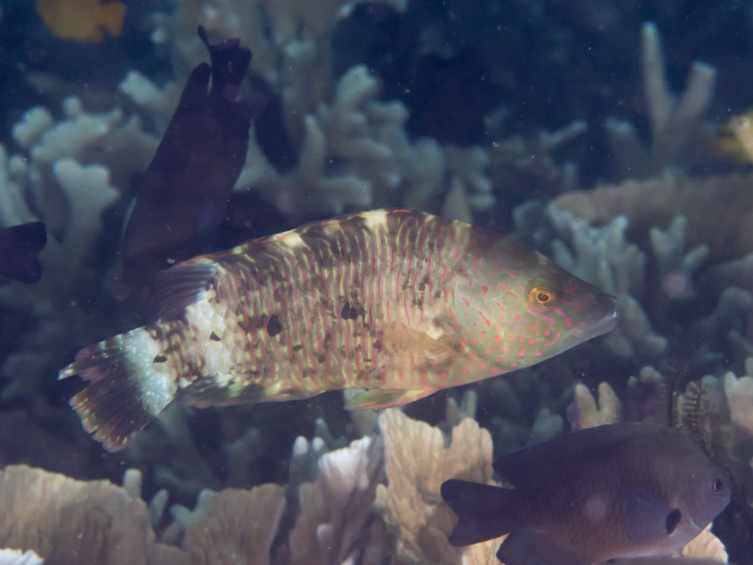 Lembeh, Indonesia - Tripletail wrasse (Cheilinus trilobatus)